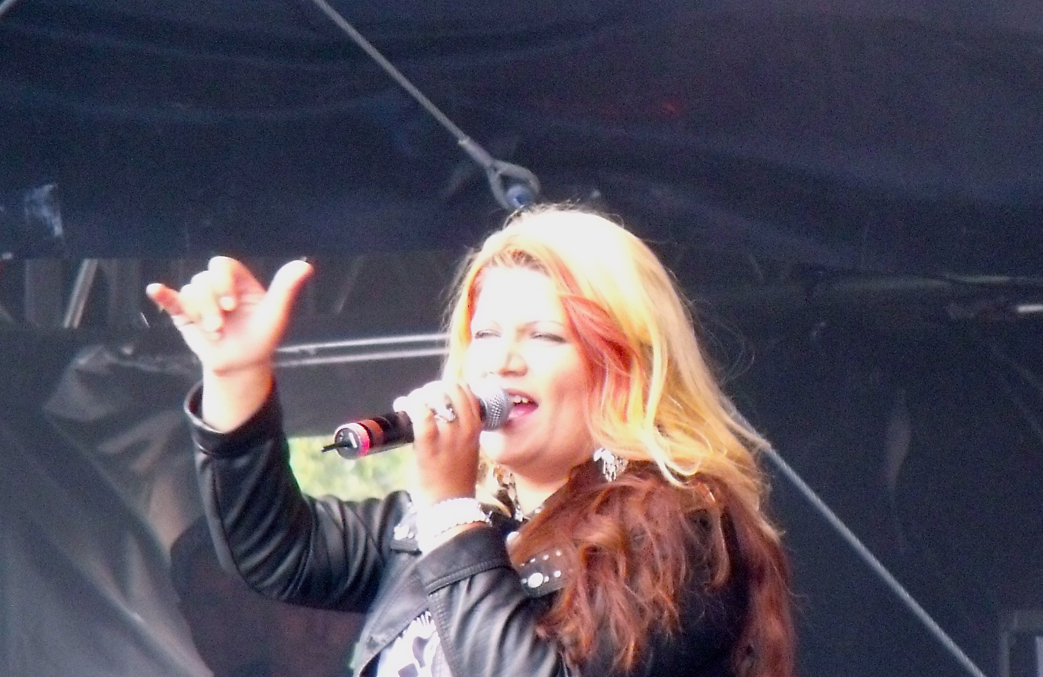 Mell from Groove Coverage